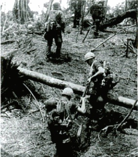 Paratroopers hunt along the Song Be near War Zone D